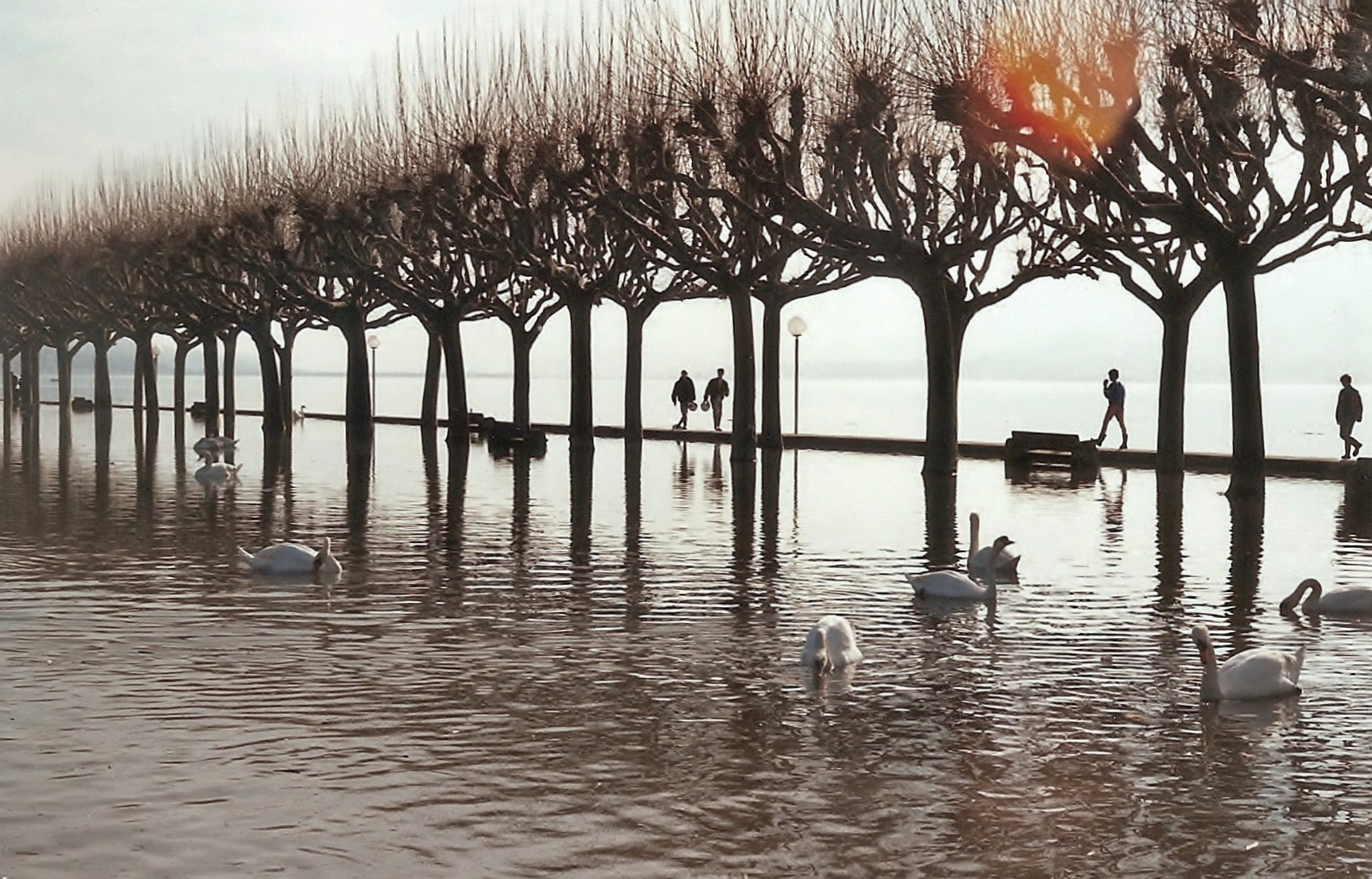 Sight of Aix-les-Bains Esplanade during the lac du Bourget flooding of February 1990, in Savoie, France.